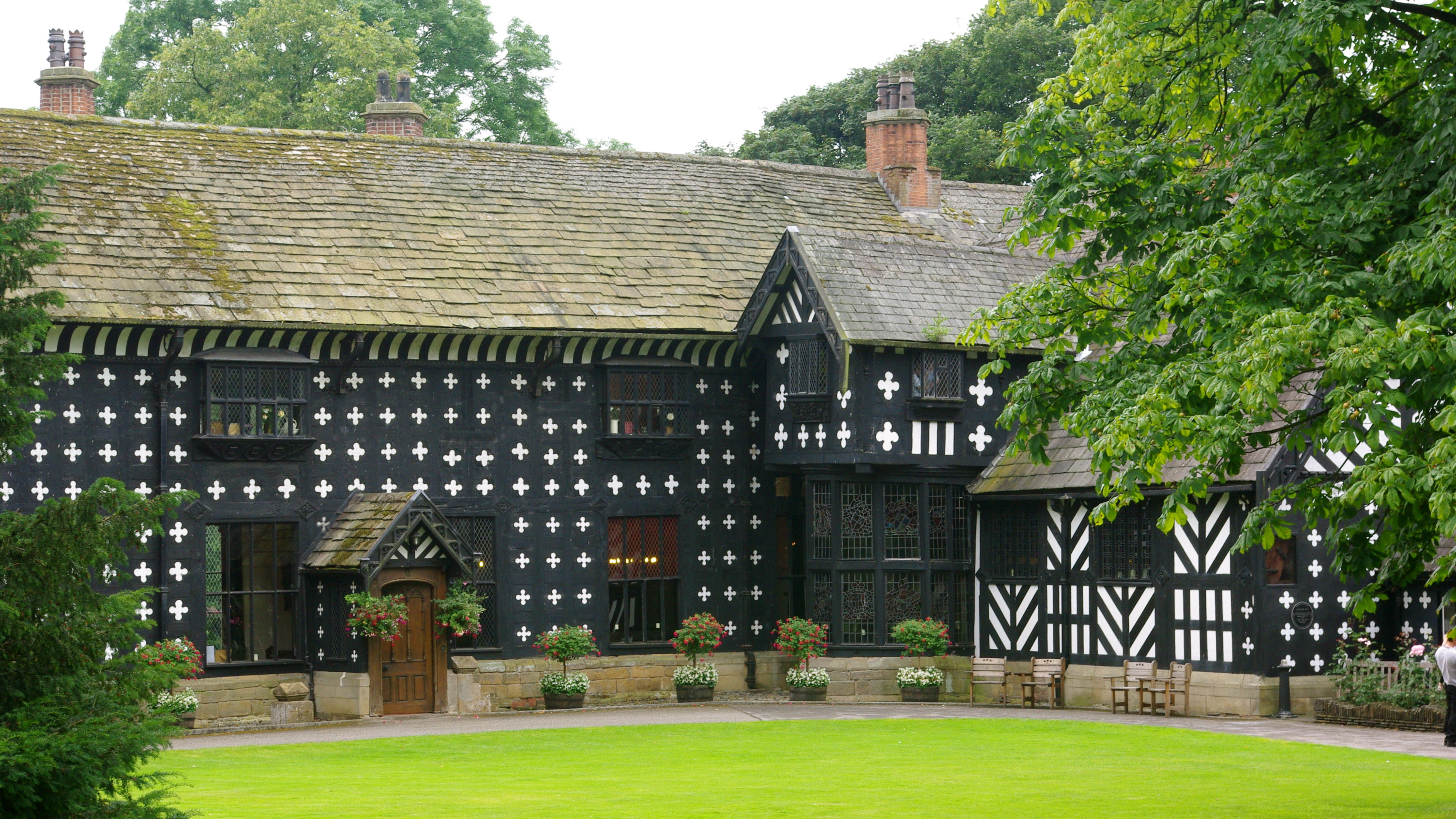 Samlesbury, near to Samlesbury Bottoms, Lancashire, Great Britain.